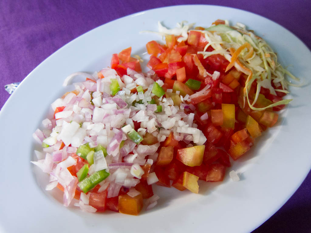 Kachumbari is a fresh tomato and onion salad dish in East and Southern African cuisine. It is an uncooked salad dish consisting of chopped tomatoes, onions, and chili peppers (and salt to taste).